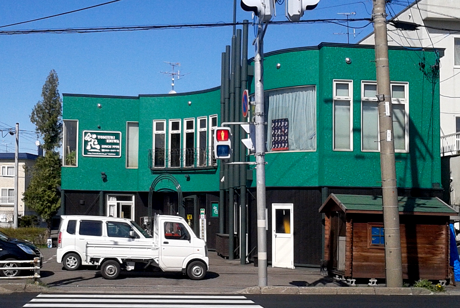 Yomiuri Eniwa building, the producers of the Yomi Asa Plus free paper in Eniwa, Hokkaido